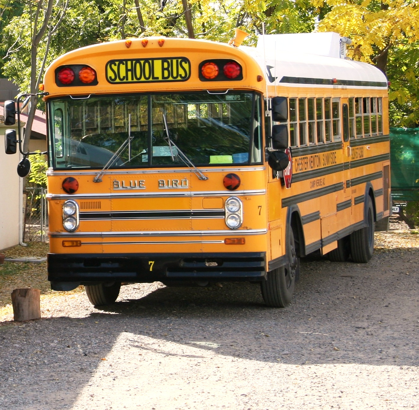 A retired school bus photographed in Arizona. The bus is a 1988-1989 Blue Bird All American Rear Engine on a Blue Bird chassis.